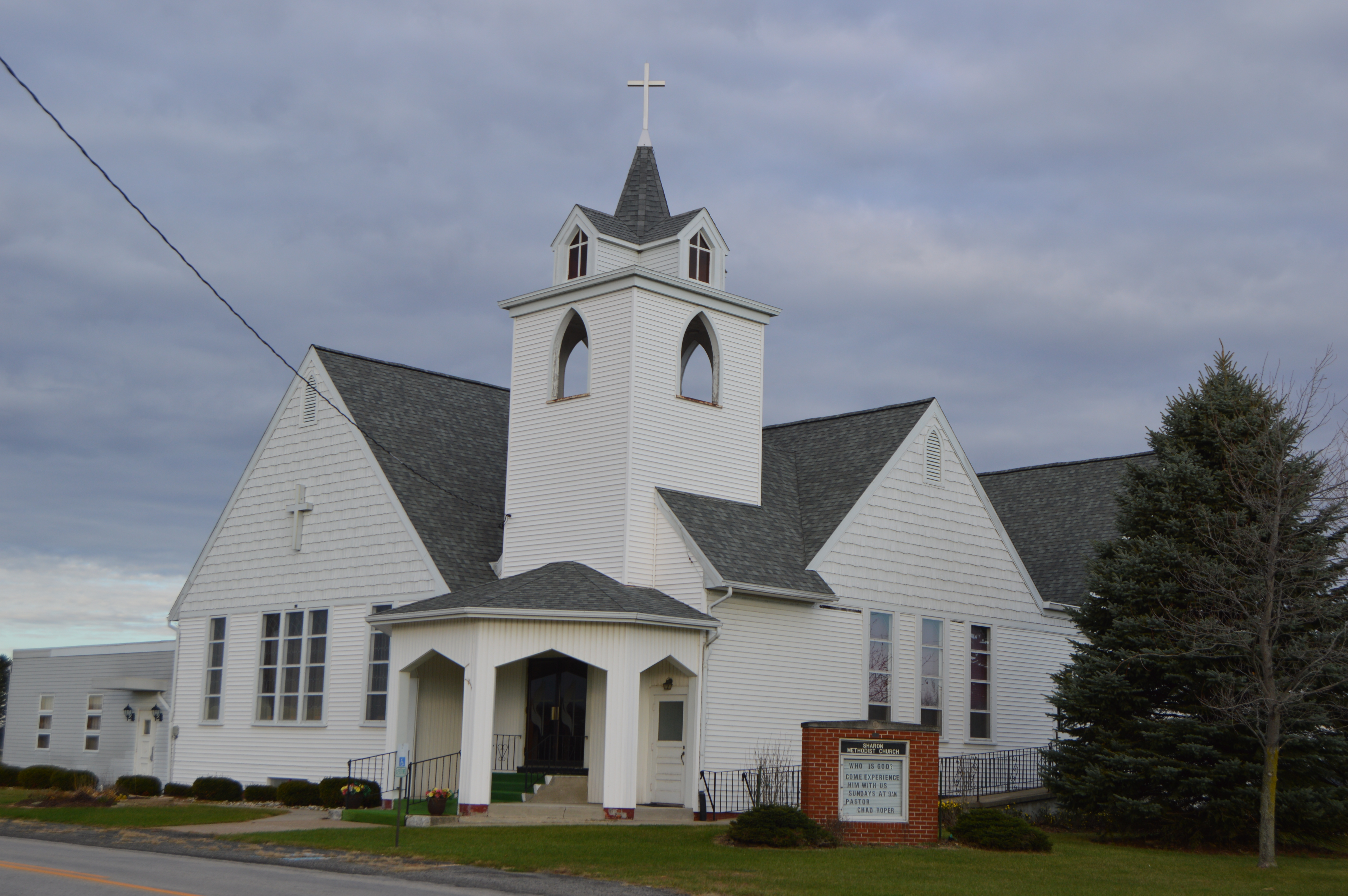 View from the southeast of Sharon United Methodist Church, located at the junction of State Route 109 and County Road P north of Malinta in Harrison Township, Henry County, Ohio, United States.